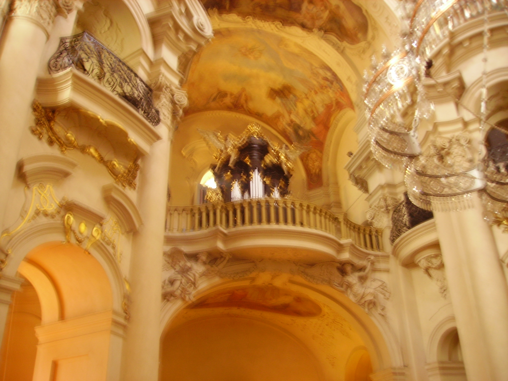 Organ of the Cathedral St. Nicolas, Prague